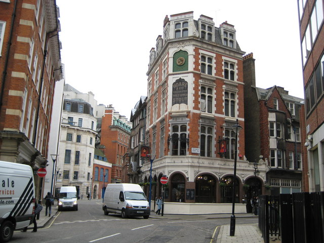 Holborn: George IV Public House, Portugal Street, WC4 A pub owned by a school! The London School of Economics and Political Science (LSE) bought these premises in 2003 and now run them for the benefit of the LSE community, although the pub does remain open to the public. The green tablet displays a bas-relief profile of King George IV, while the black tablet states: HOARE & Cos CELEBRATED THREE GUINEA STOUT Where can you buy a glass of stout for less than £3.15 these days! Hoare's brewery was in Lower East Smithfield and they were taken over by Bass in 1933. Hoare's trademark was a toby jug that subsequently formed part of the Bass Charrington trademark.